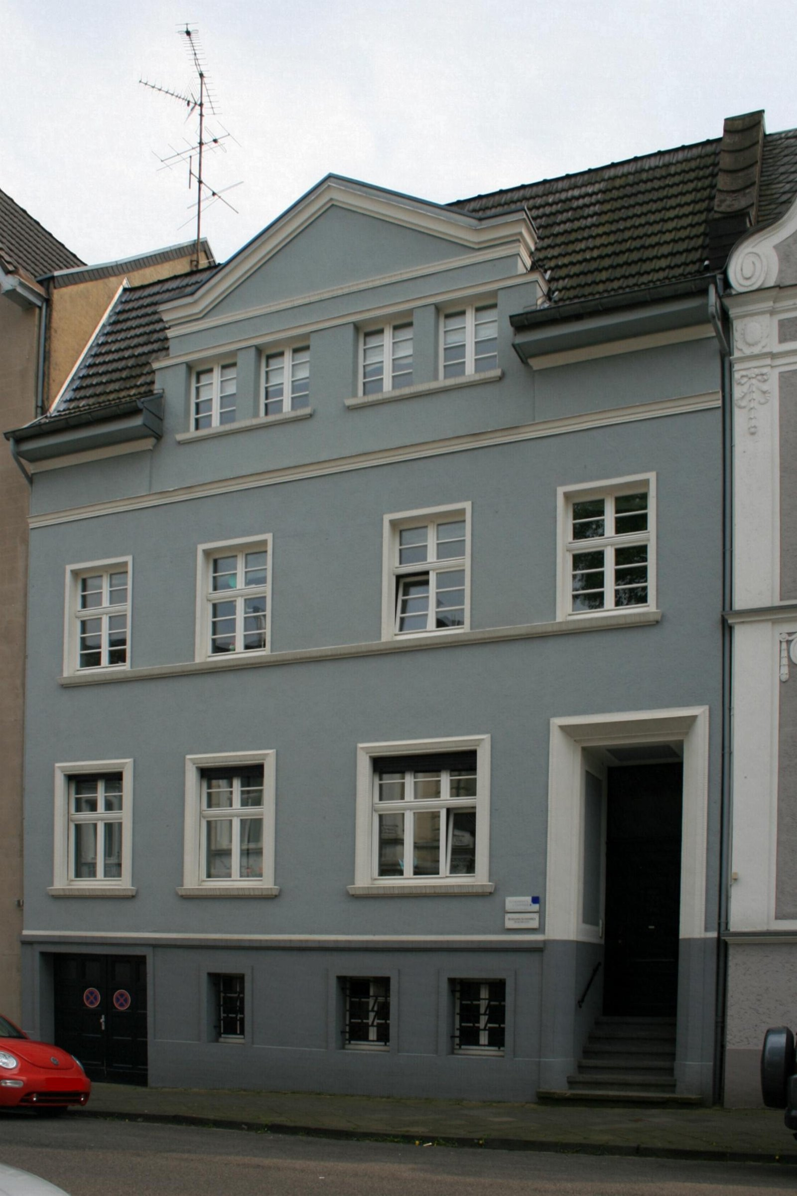 Cultural heritage monument No. H 080 in Mönchengladbach